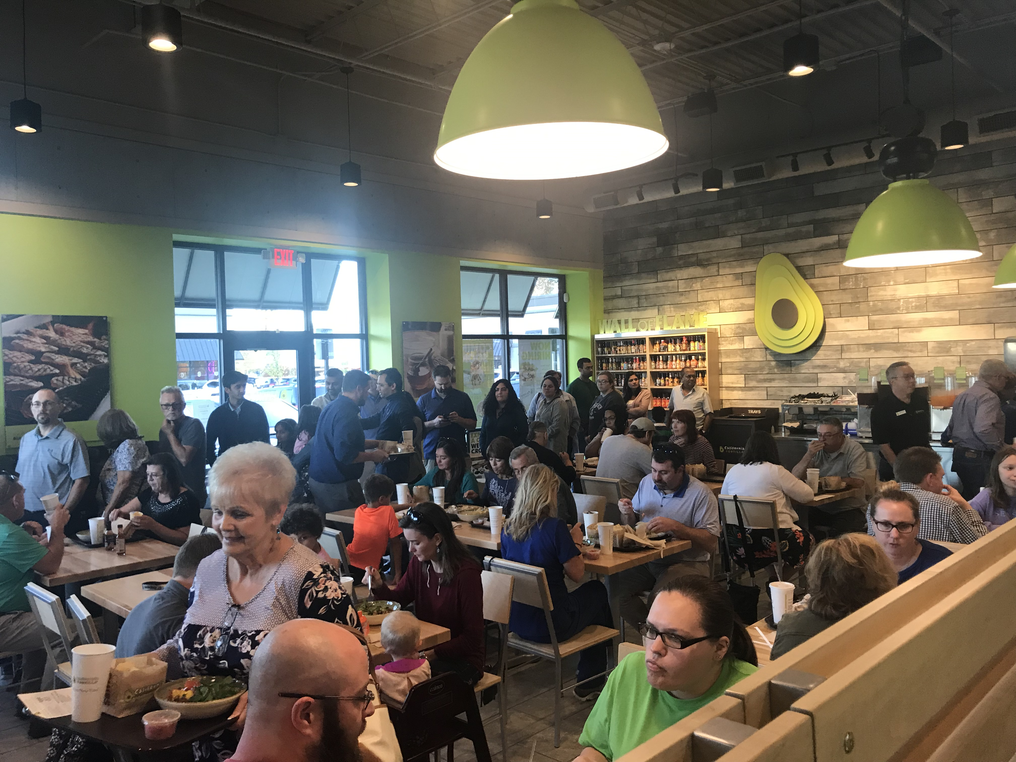 California Tortilla Interior